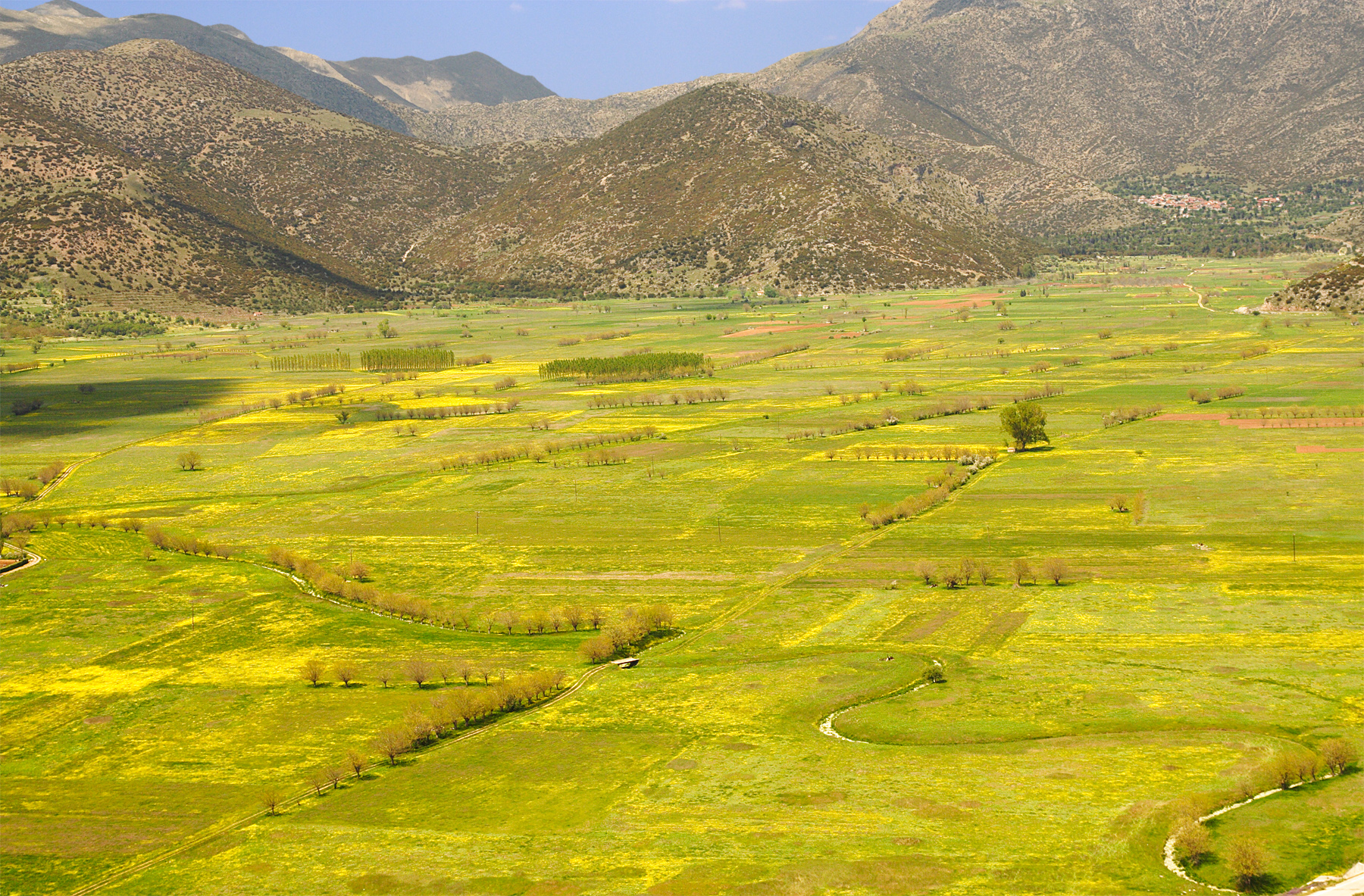 Karst field (polje) „Argón Pedíon" (Pausanias: tilled plain), Northeast-Peloponnese, at margin of Tripolis-Plateau